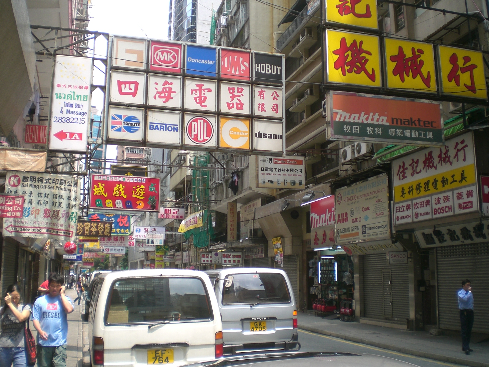 灣仔譚臣道小吃店, Snack foods shop, Thomson Road, Wanchai,Hong Kong